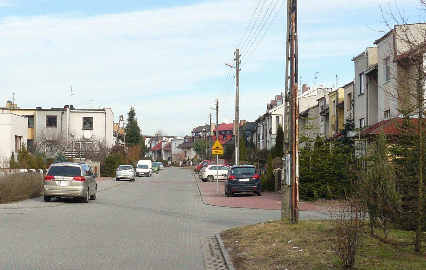 Poetic District, Poznan.